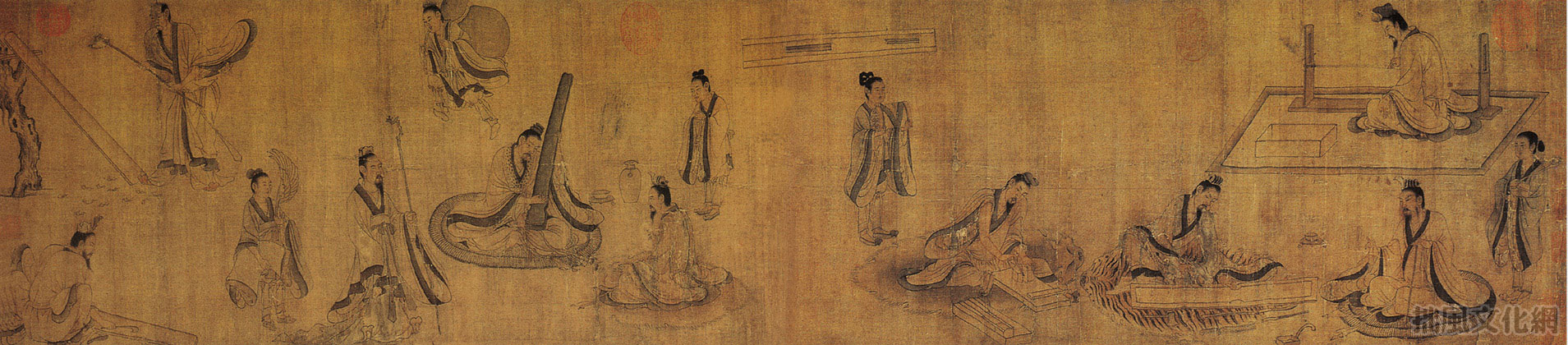 Gu Kaizhi (attributed). 29,4x130cm. Palace Museum, Beijing.